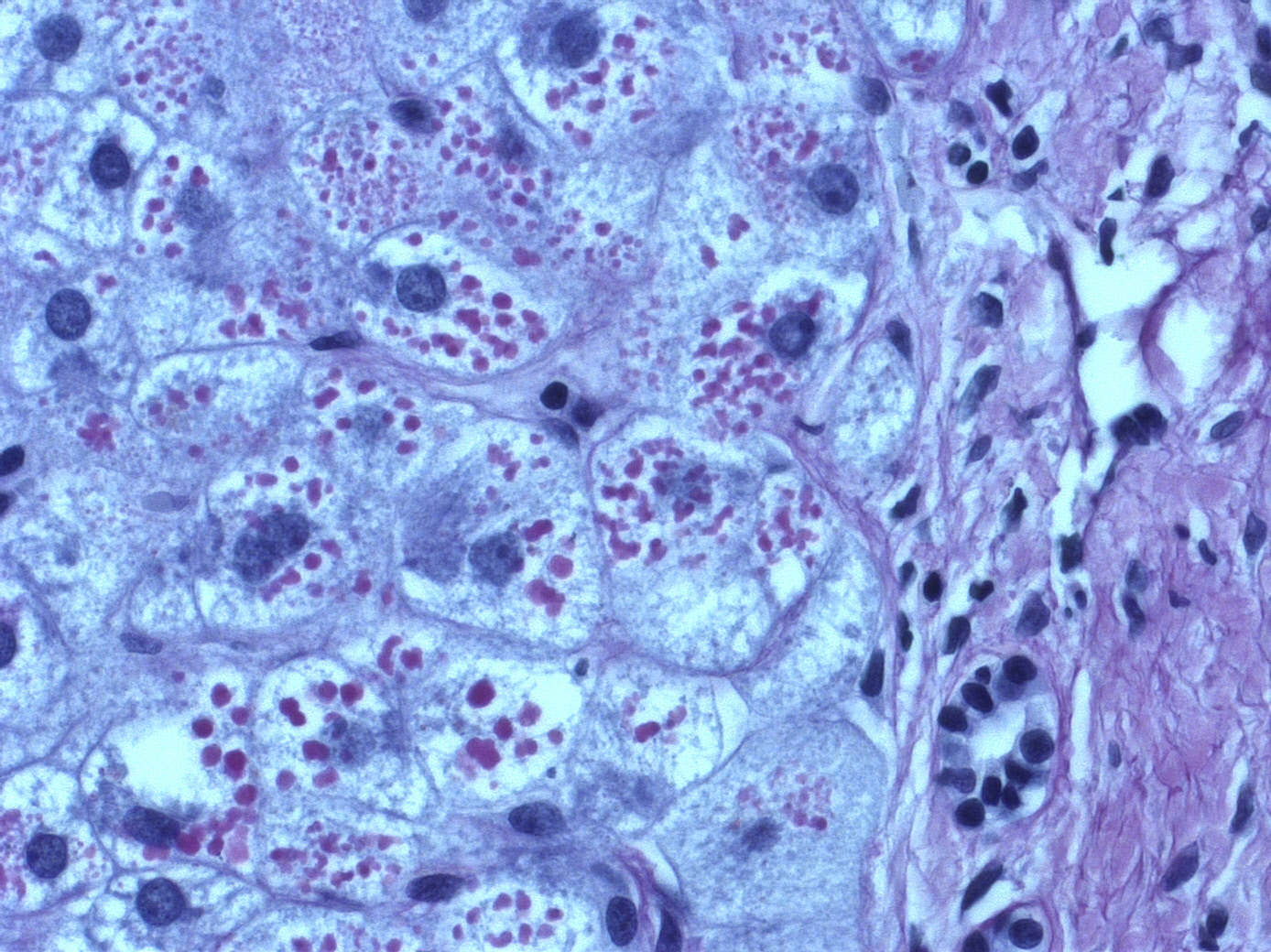 Alpha-1-Antitrypsine in hepatocytes under light microscope (using Diastase-Perjod-Schiff-Reagenz, PAS-D)